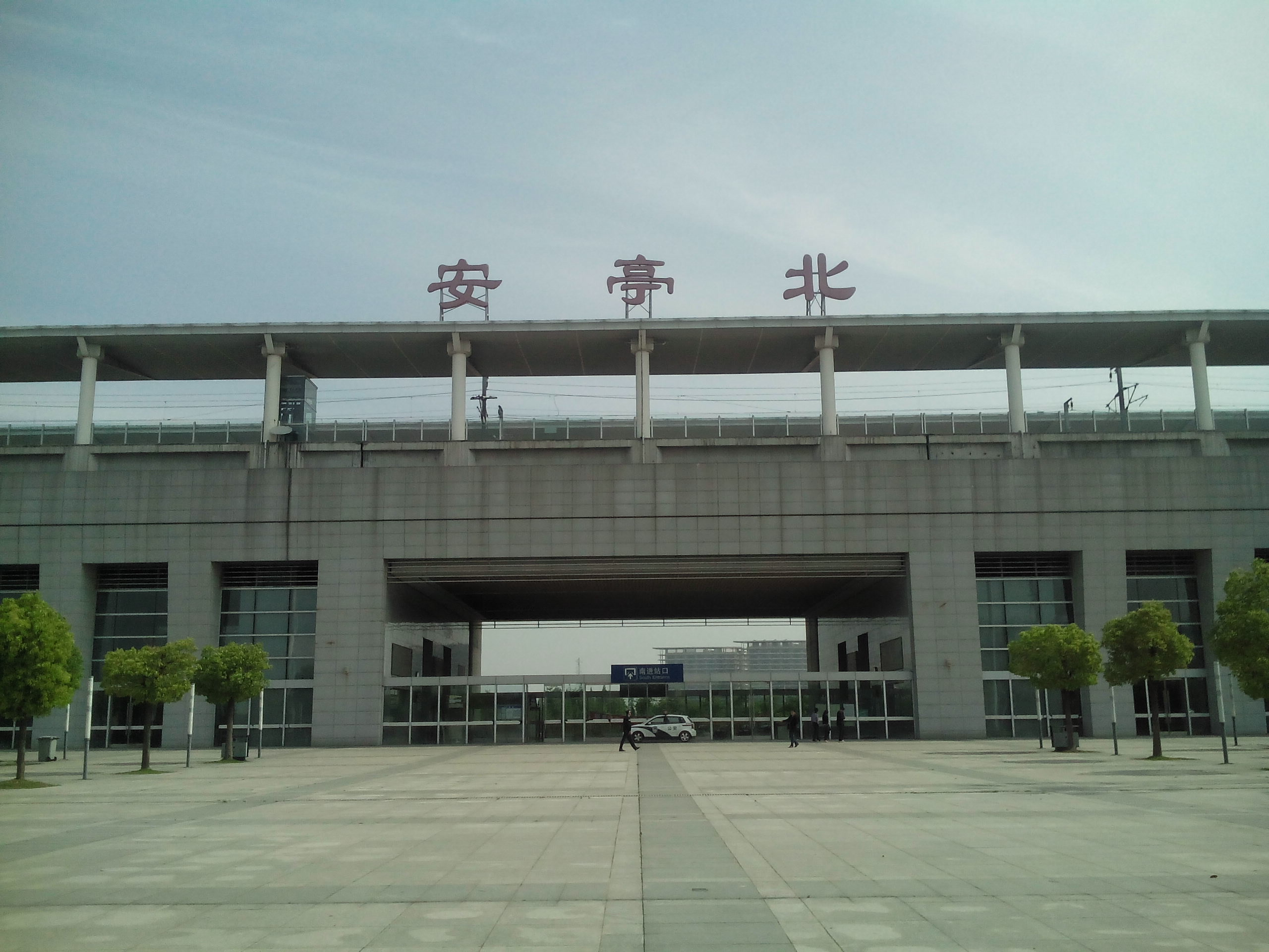 201505 Antingbei Railway Station